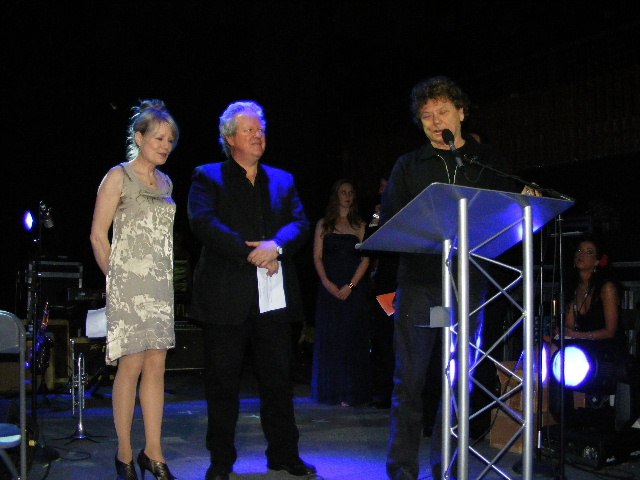 Austin Music Awards - Talking Heads; Tina Weymouth, Chris Frantz and Jerry Harrison. Austin Music Awards during SXSW 2010. Photo by Ron Baker.